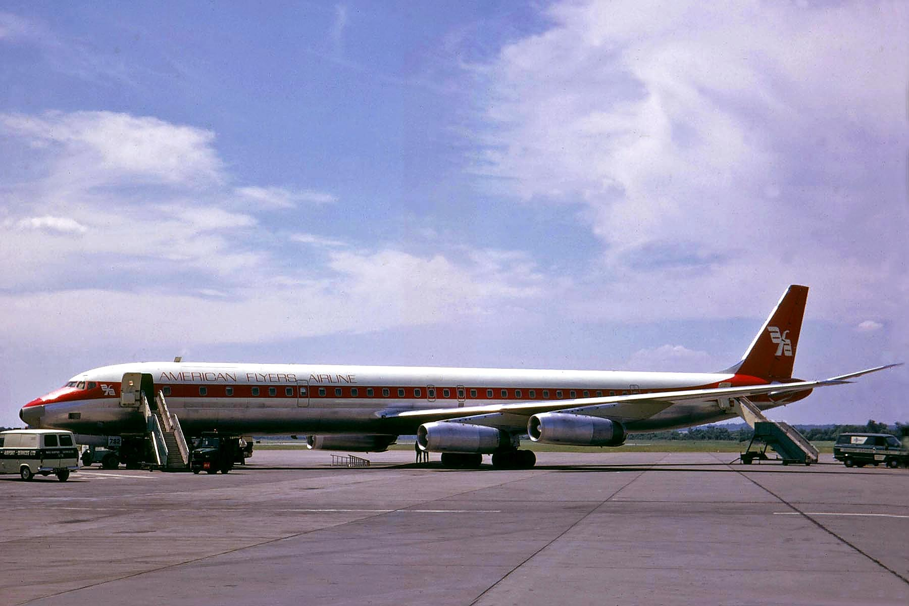 A picture of an airplane